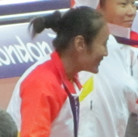 Silver: Dong Hongjiao (China) Women's 100m T54 Victory Ceremony